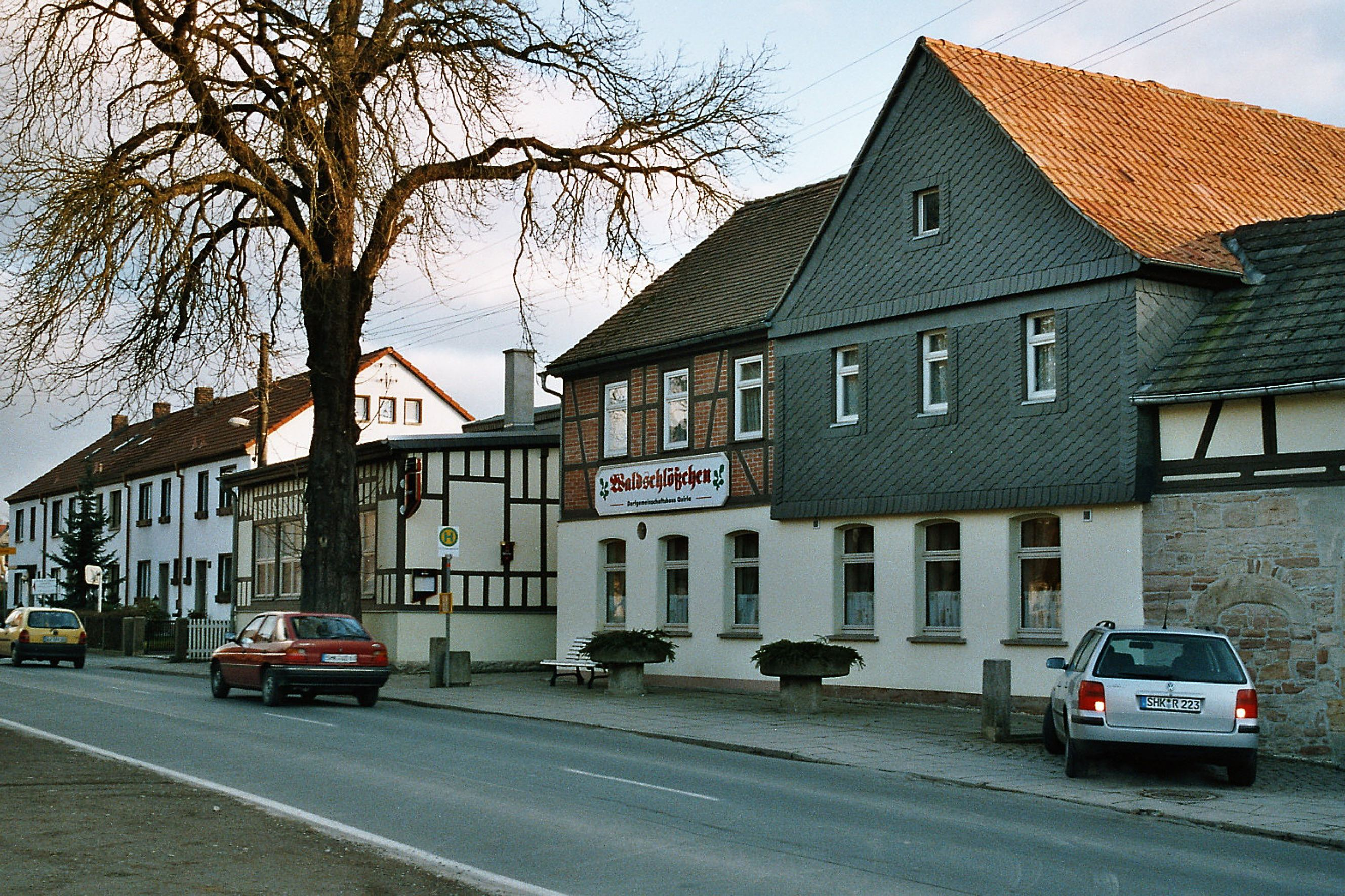 The restaurant "Waldschlösschen" in Quirla